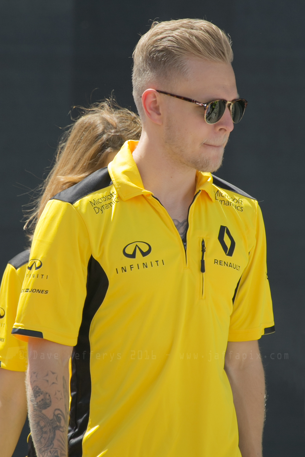 Kevin Magnussen at the 2016 Bahrain Grand Prix